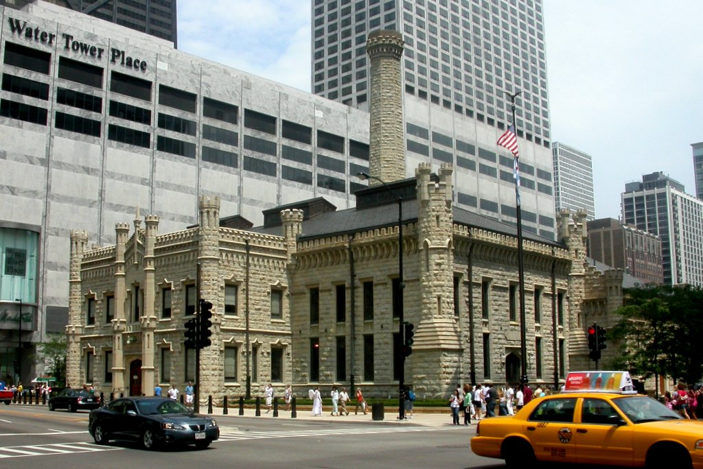 Chicago Avenue Pumping Station